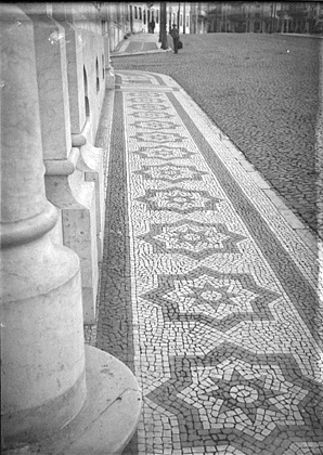 See below.